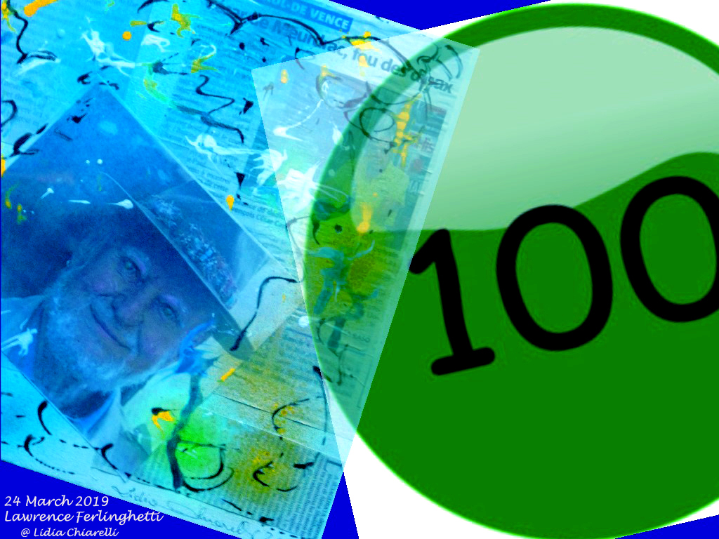 Digital Collage created to celebrate the 100th birthday of Lawrence Ferlinghetti